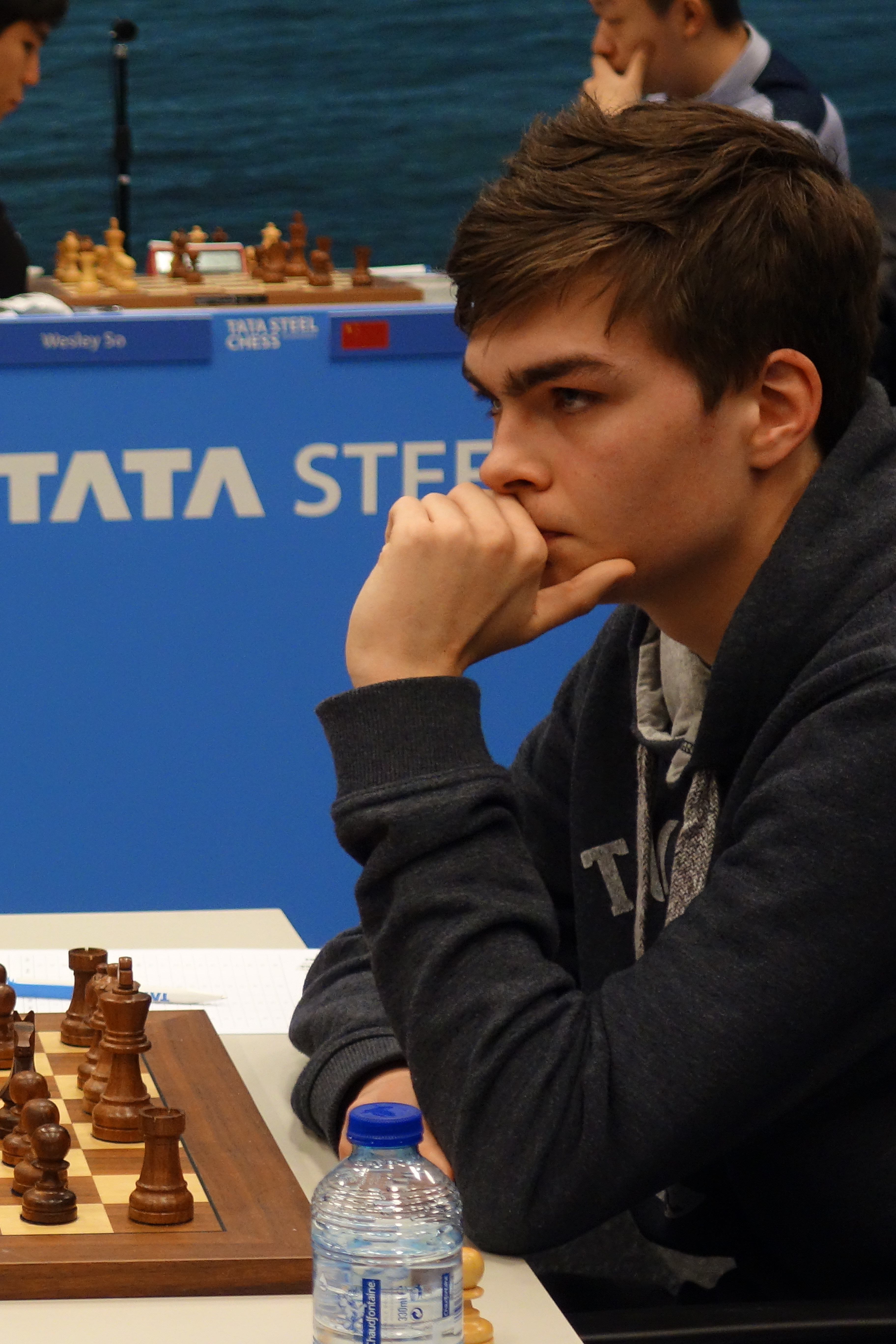 Jorden van Foreest. Tata Steel Chess Tournament 2017, Wijk aan Zee (the Netherlands), 28 January 2017